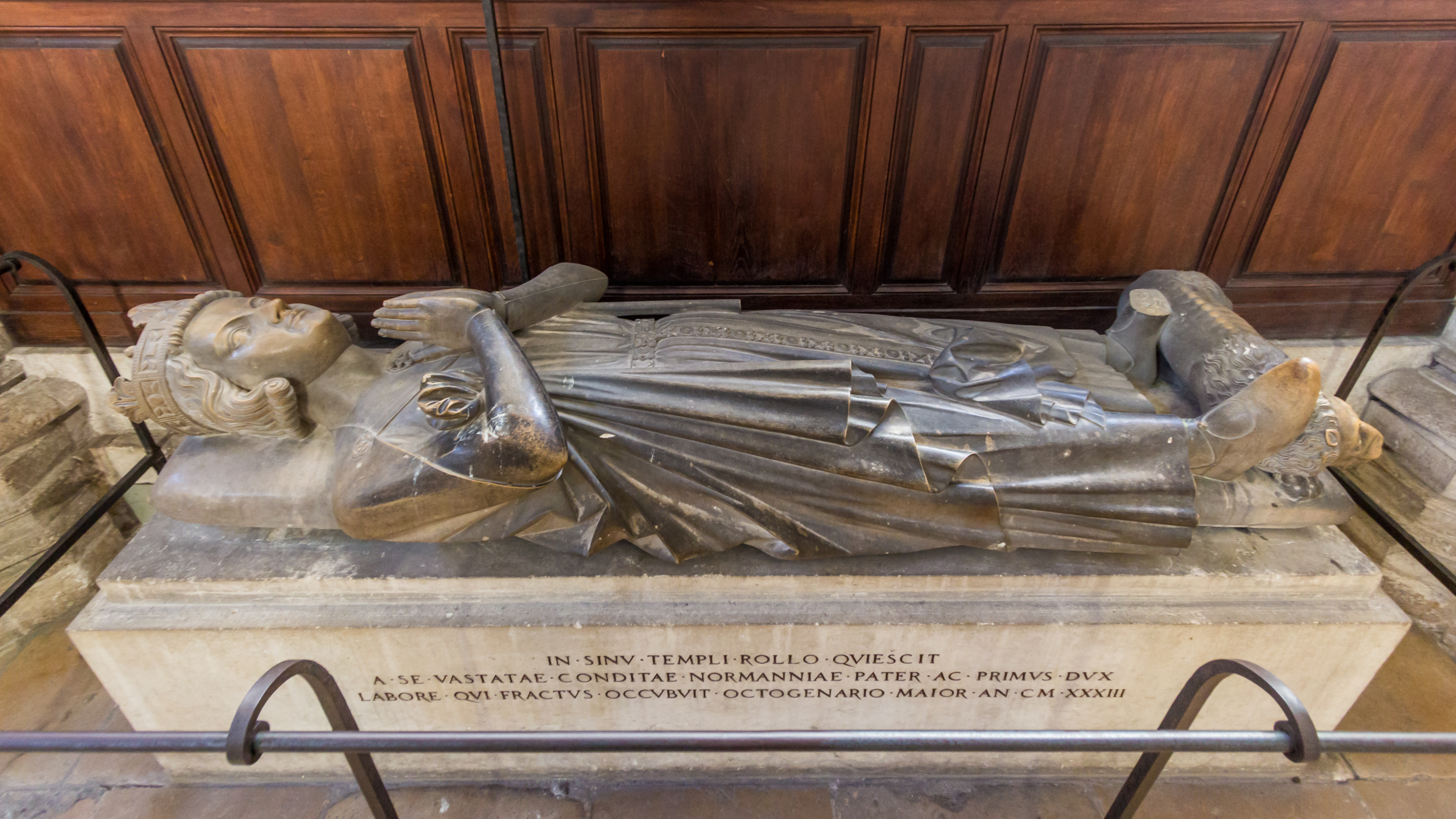 Effigy of Rollo of Normandy, Notre-Dame de Rouen